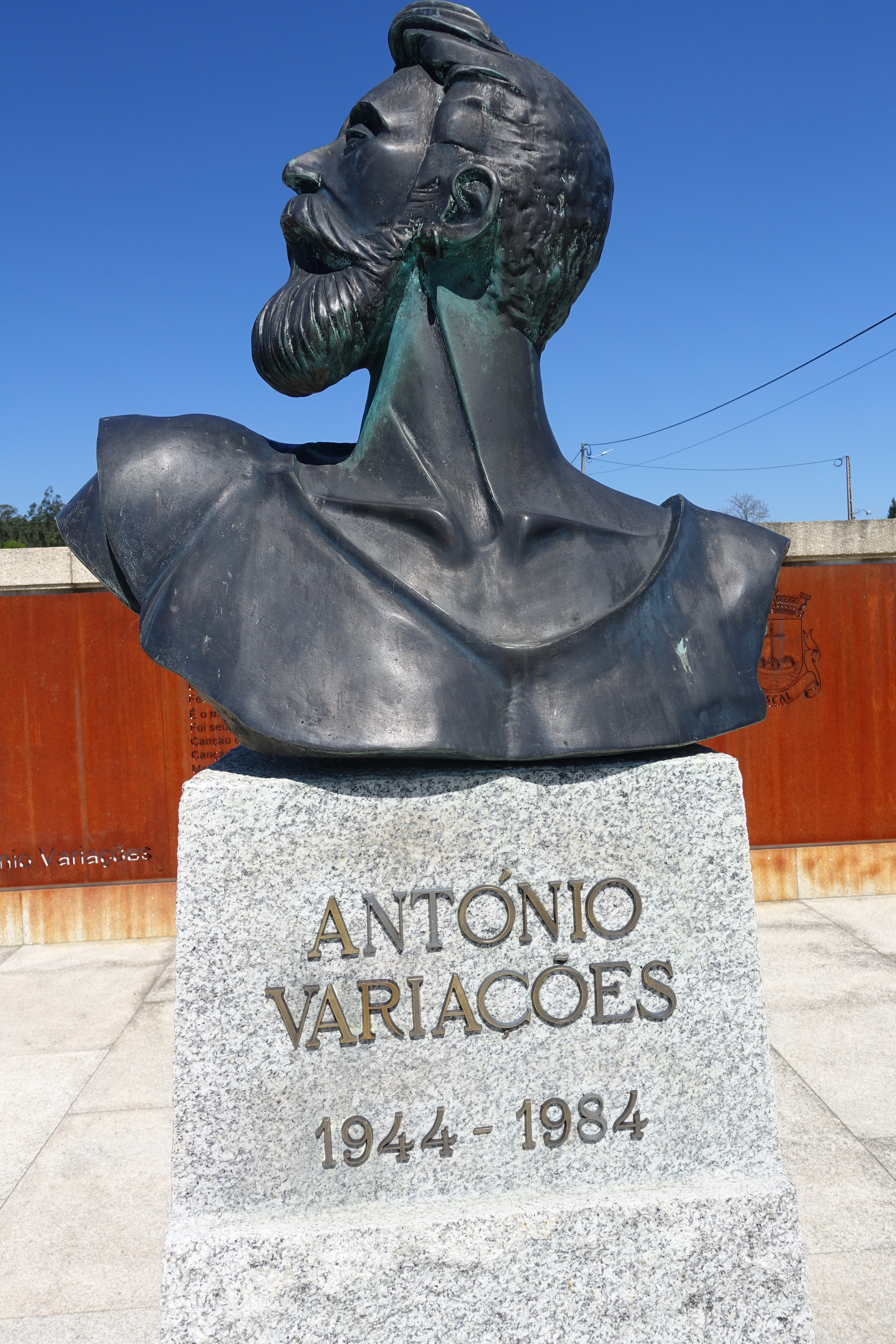 Monument to António Variações in Fiscal Amares, Portugal.